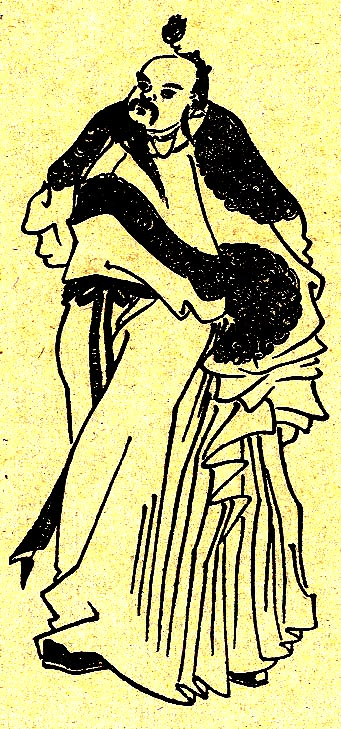 Portrait of Ma Su from a Qing Dynasty edition of the Romance of the Three Kingdoms